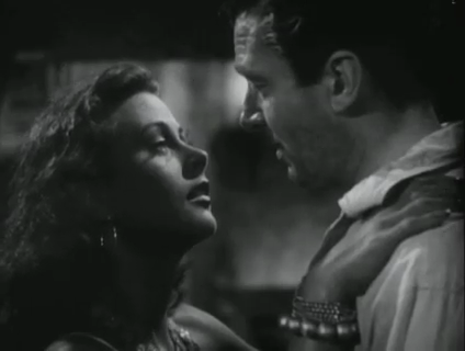 Hedy Lamarr and Walter Pidgeon in White Cargo (1942), directed by Richard Thorpe.